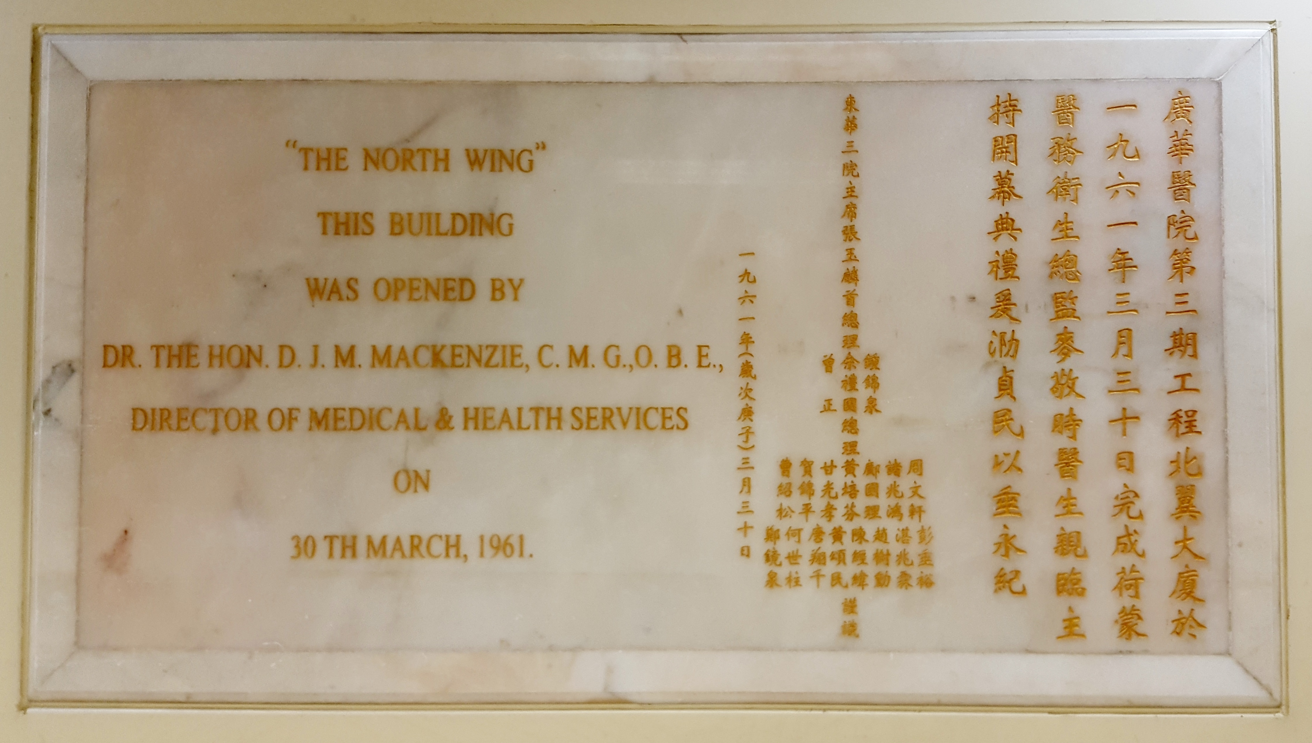 The commemorative plaque of the North Wing of Kwong Wah Hospital, Hong Kong. It reads ""The North Wing": This building was opened by Dr. the Hon. D. J. M. Mackenzie, C.M.G., O.B.E., Director of Medical & Health Services on 30th March, 1961" 中文（香港）: 香港廣華醫院北翼大廈啟用紀念碑。紀念碑由時任醫務衛生總監麥敬時醫生，C.M.G., O.B.E.於1961年3月30日主持揭幕